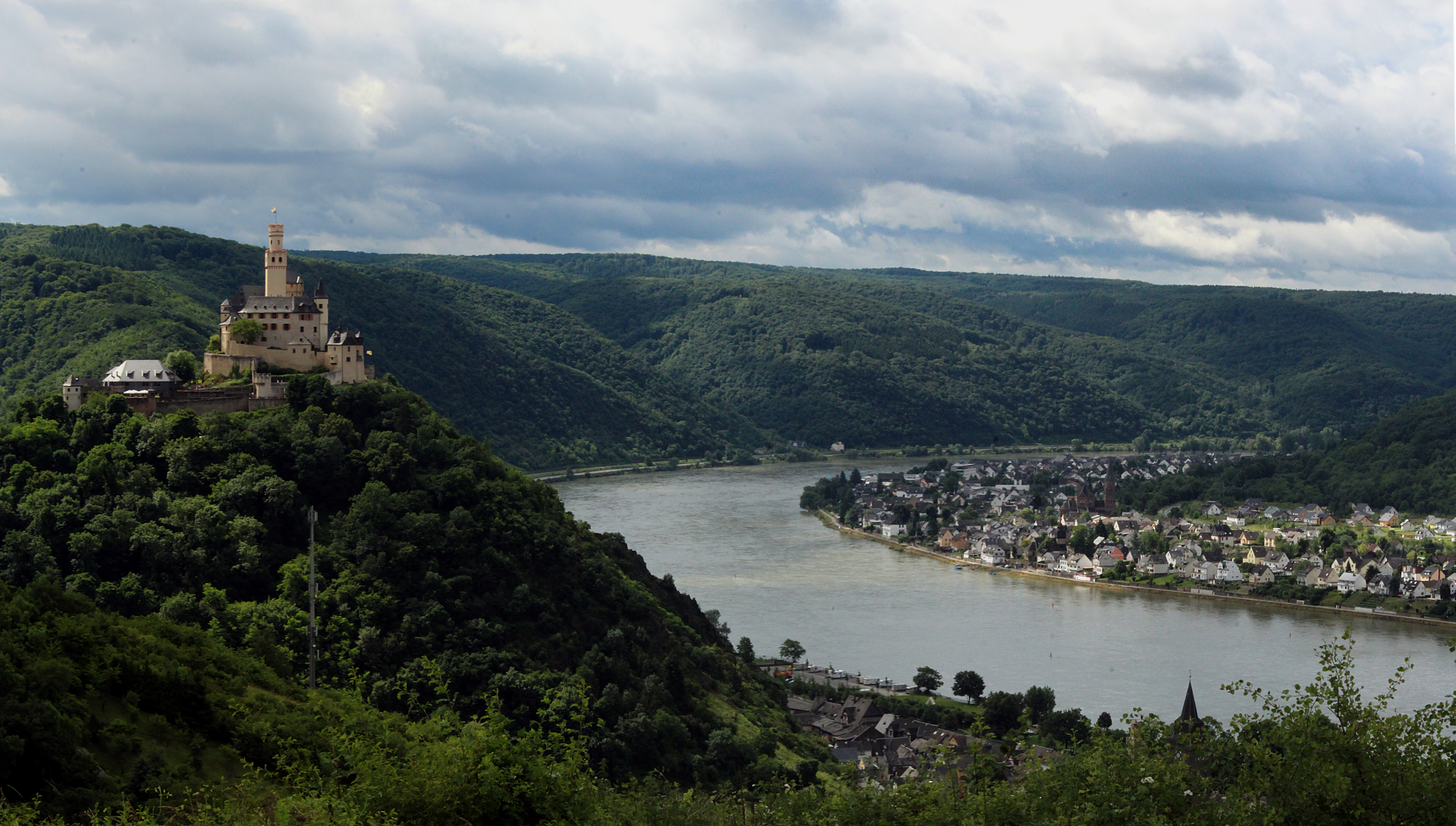 The Marksburg overlooking the Rhine. It's strategic significance is obvious. Spay is visible on the other side of the Rhine, Braubach on this side.